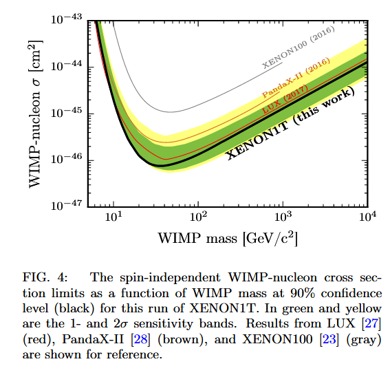 spin-independent WIMP-nucleon cross section (upper) limits as a function of WIMP mass